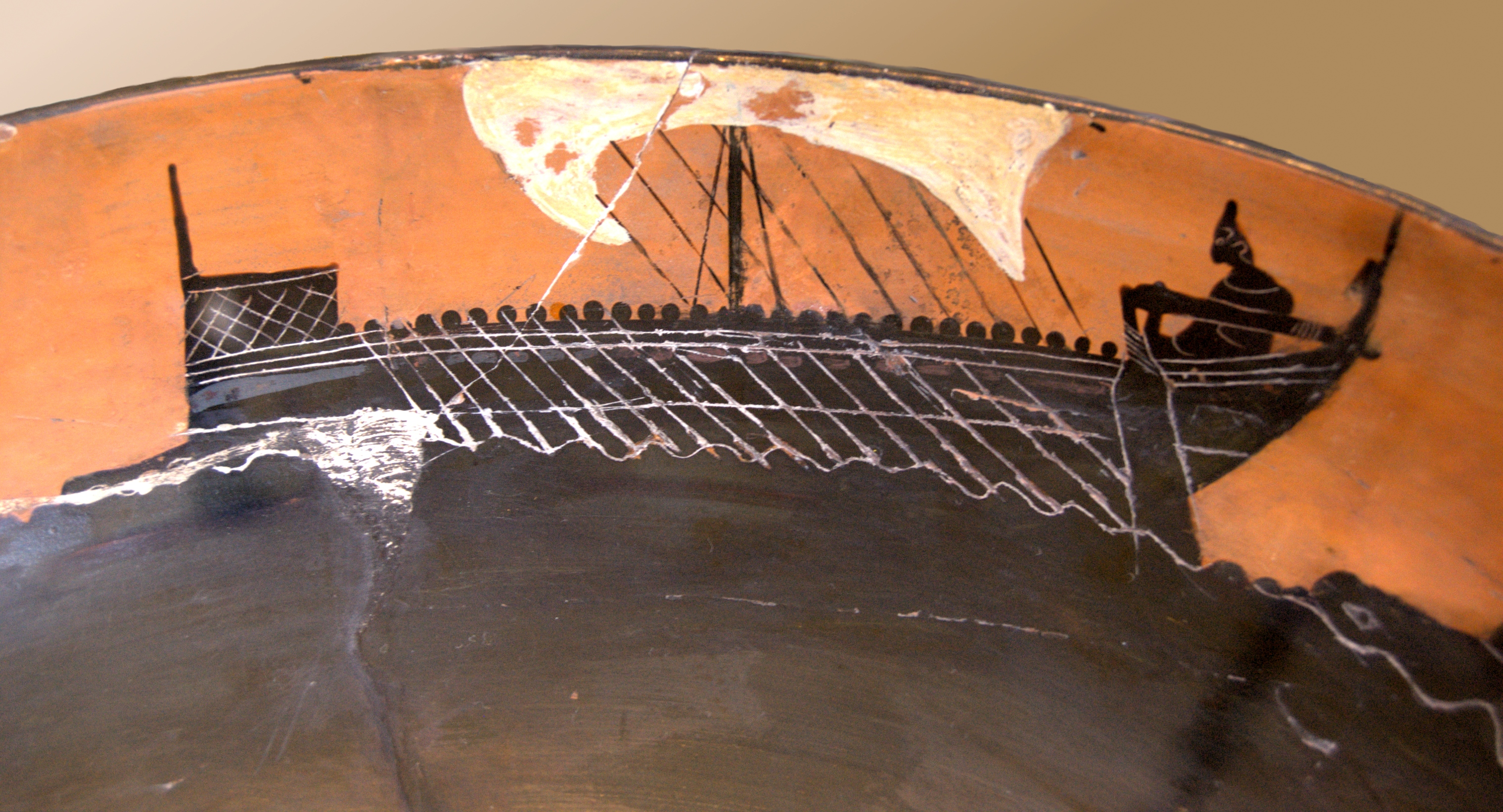 Boats cup, detail of the interior showing a frieze of five boats in contest. Attic black-figured cup, ca. 520 BC. From Cerveteri.